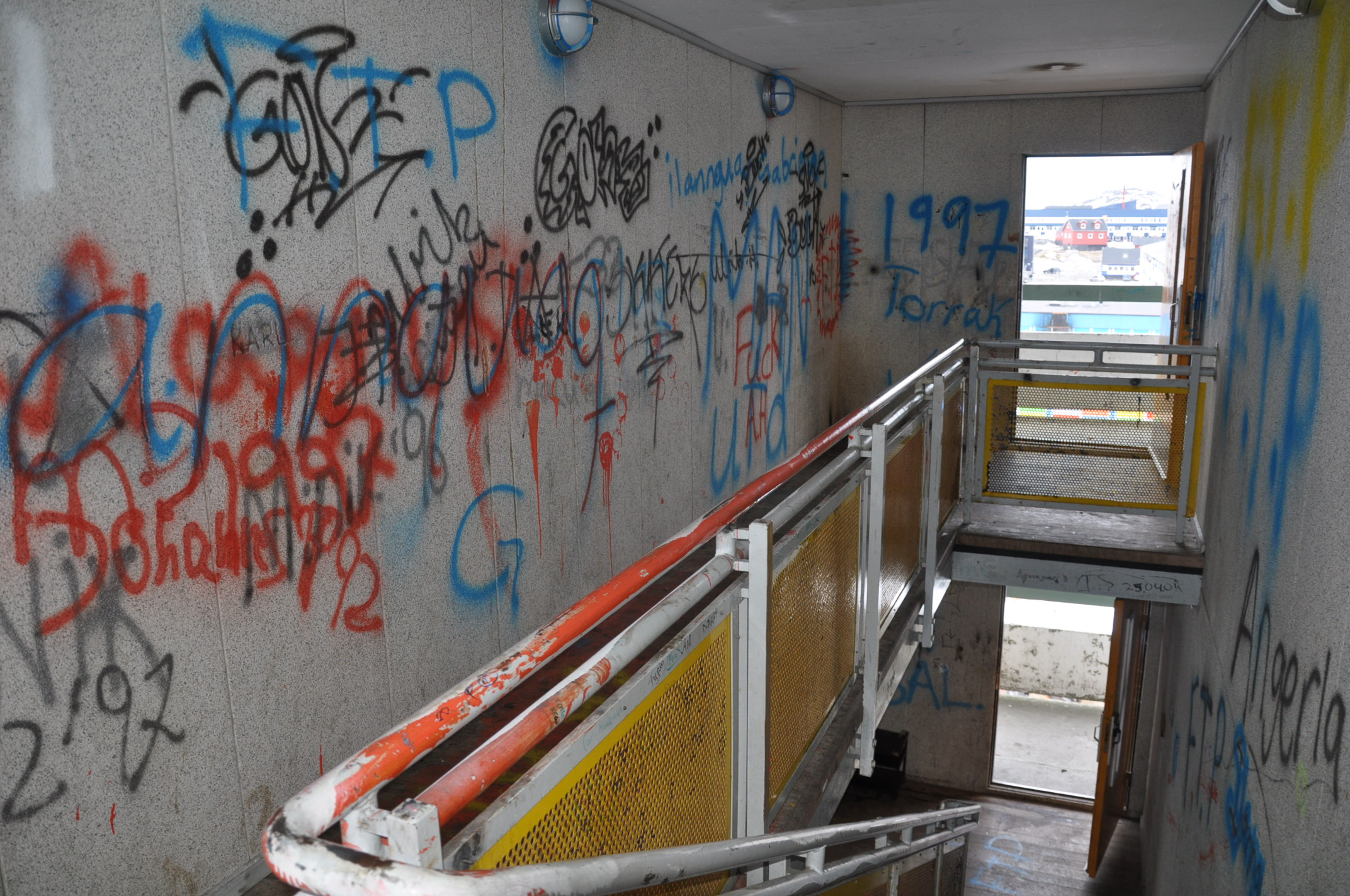 Staircases with graffiti in Blok P, the largest apartment building in Nuuk (and in all of Greenland).